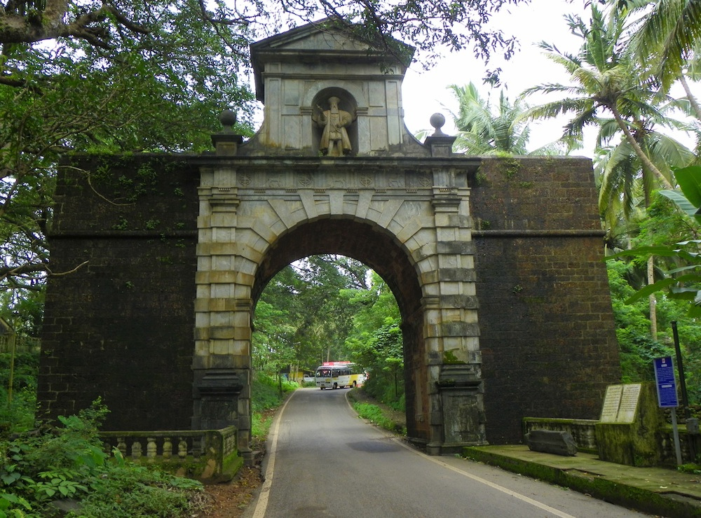 17th-century Viceroy Arch in Old Goa, India.